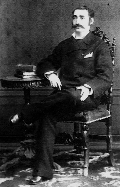 Photograph of Mișu "Claymoor" Văcărescu, the Romanian aristocrat, fashion chronicler and Army officer.